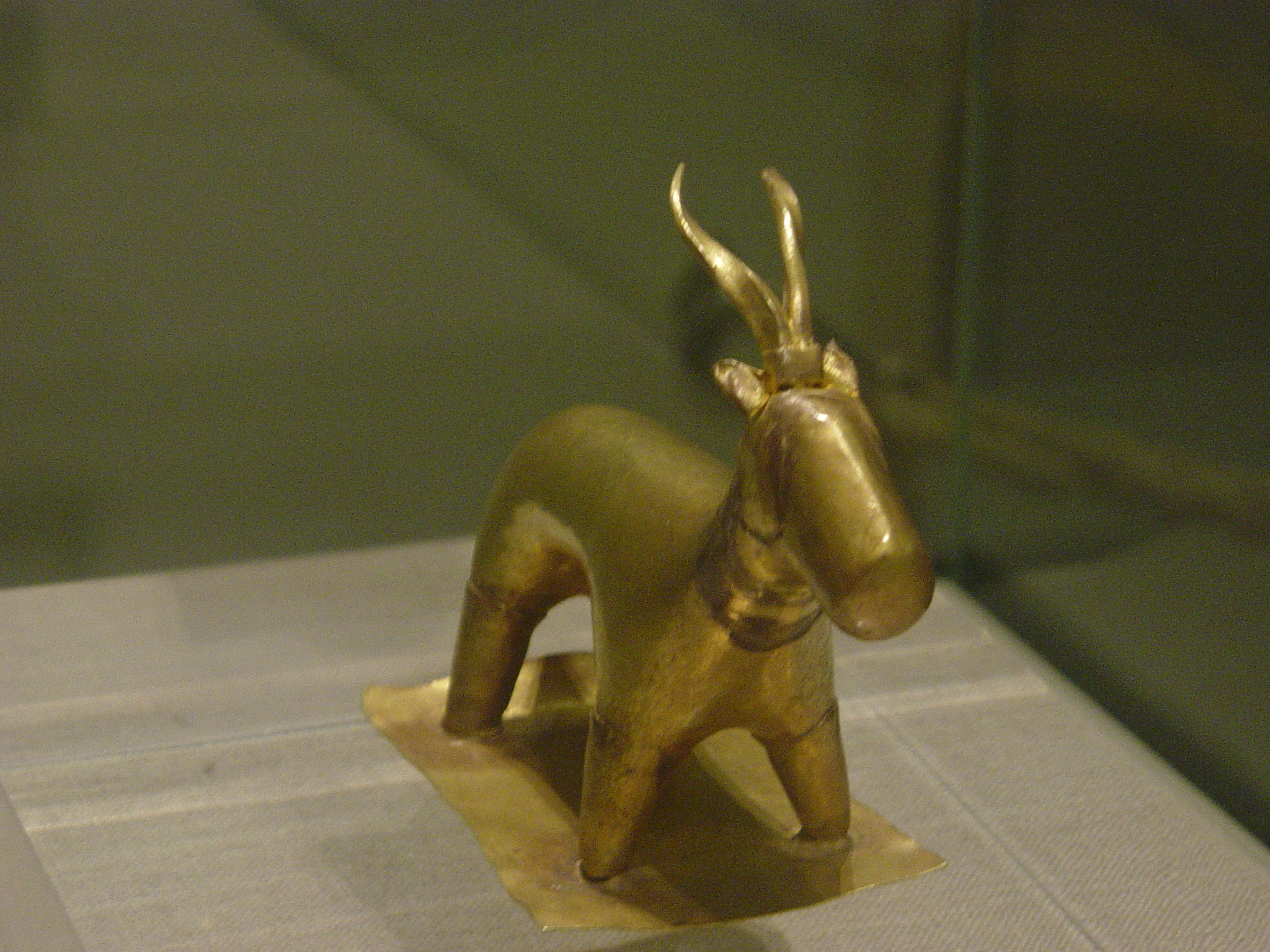 Late Cycladic (17th cent. BCE) gold ibex sculpture about 10cm long with lost-wax casting feet and head, Repoussé body, from an excavation on Santorini